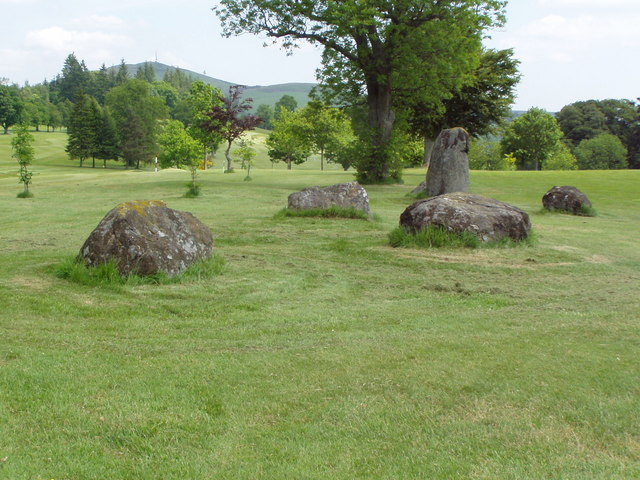 Ferntower Stone Circle from West A golf course with its own stone circle!